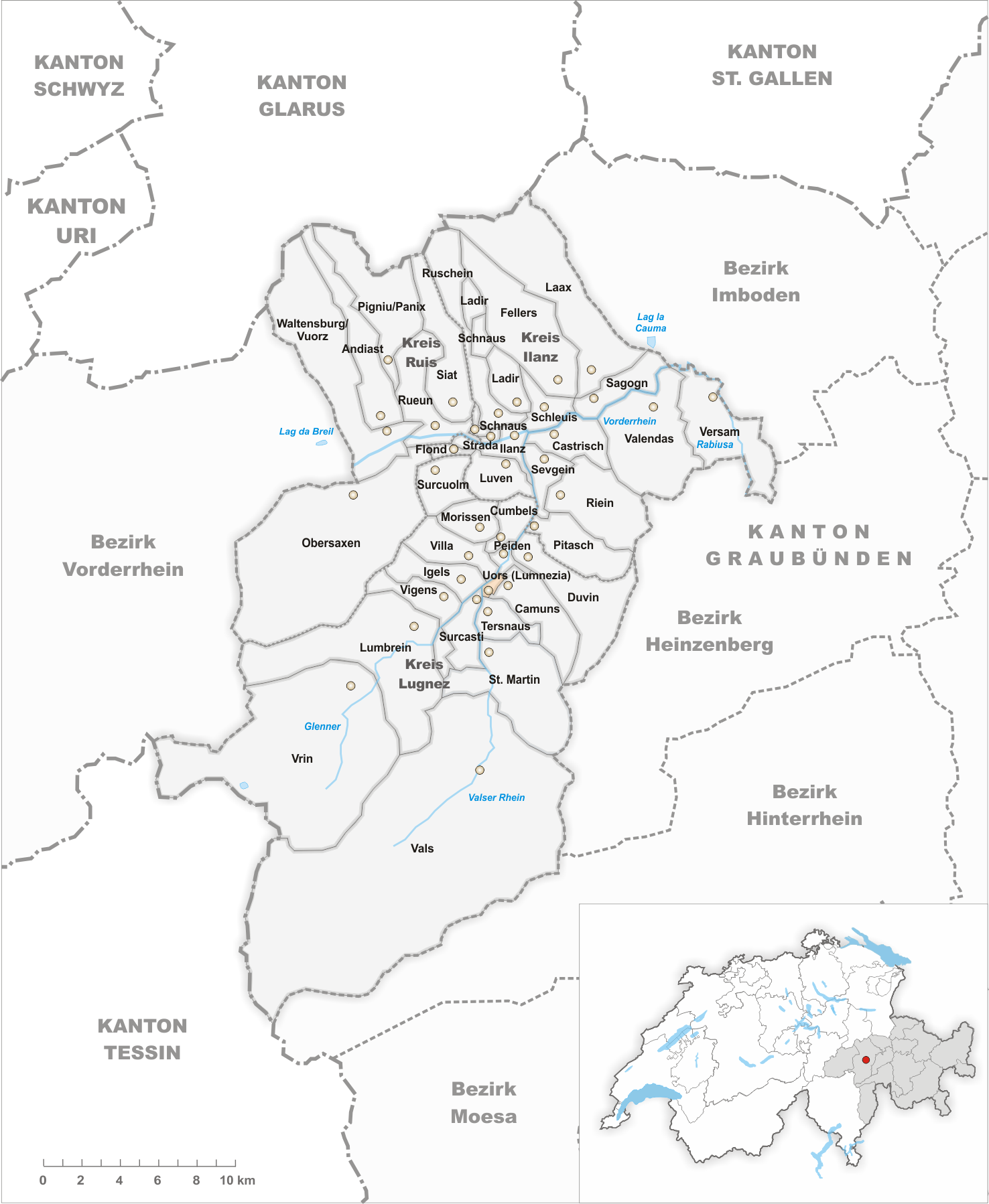 Municipality Uors Artist: Tschubby